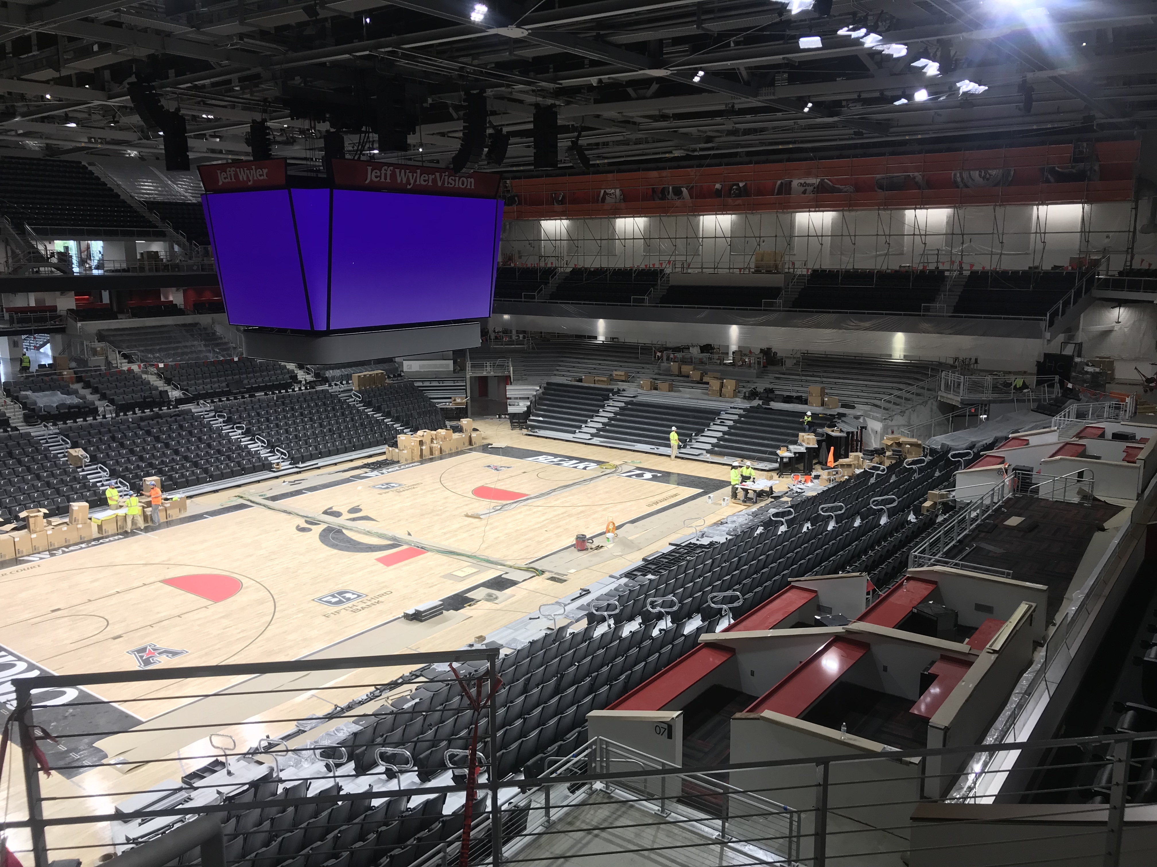 Renovated 5/3rd Arena interior Prior to first game